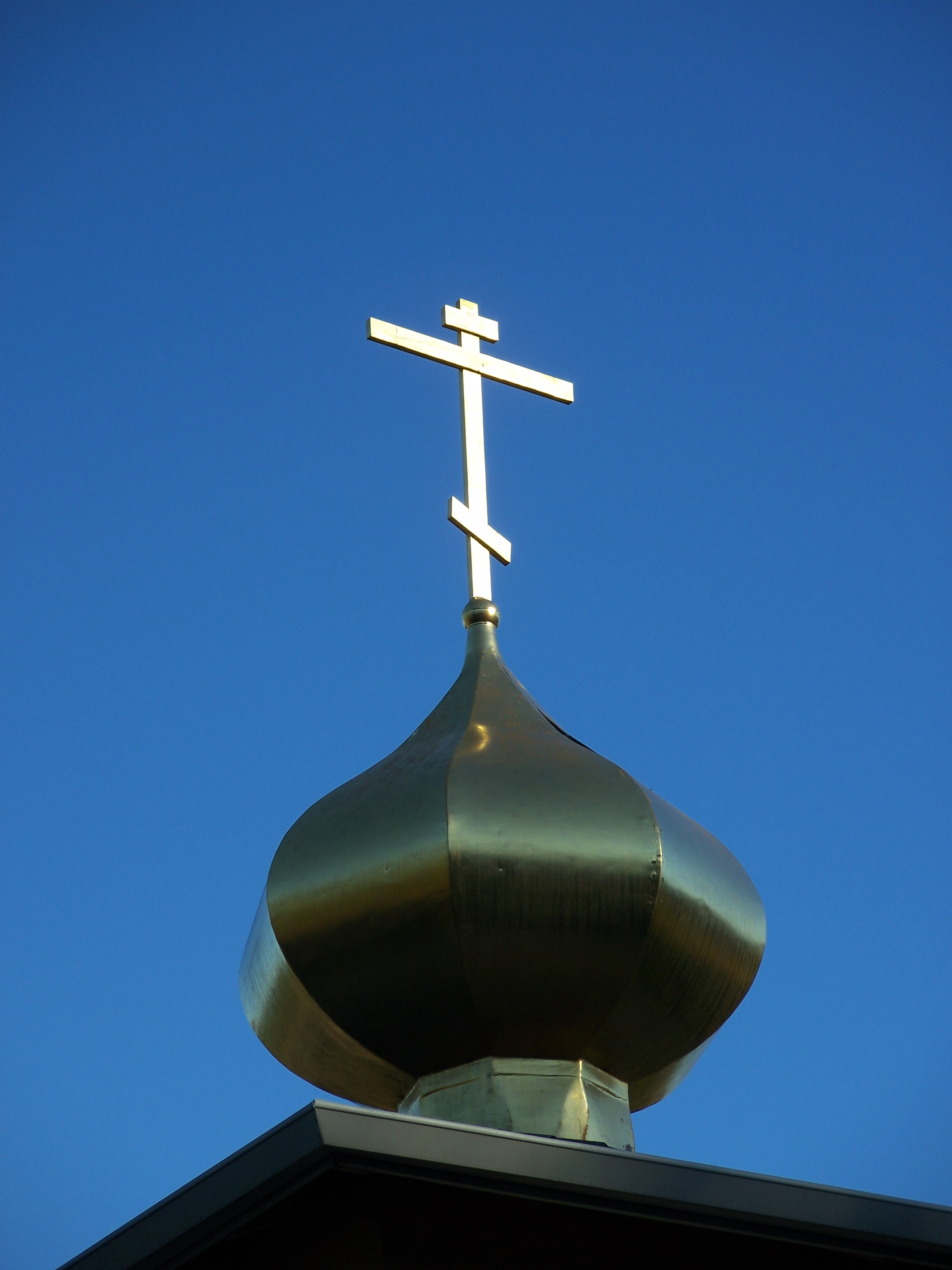 Dome of orthodox church of Saint Nicholas. Saratoga, California, USA